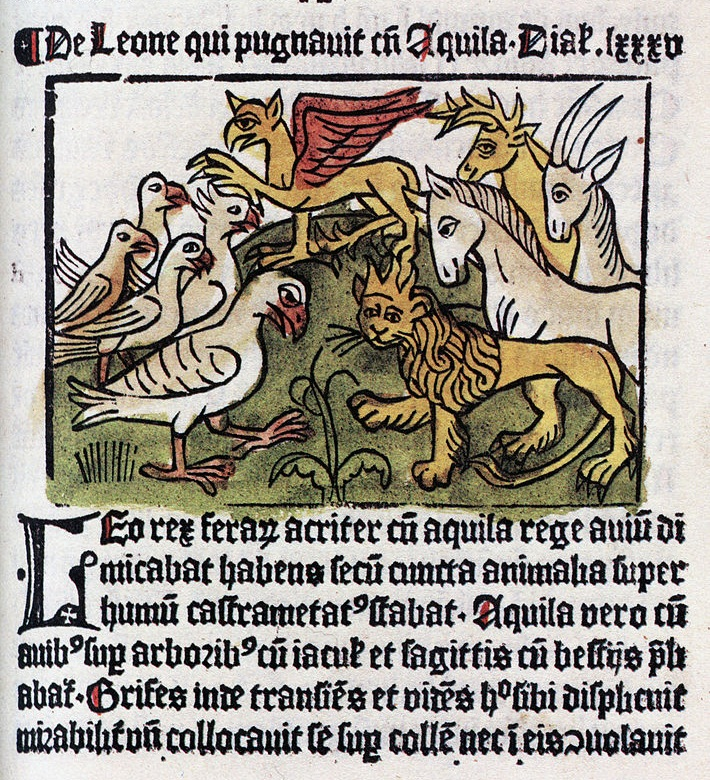 Part of a page from Johann Snells edition of Dialogus creaturum. The first book to be printed in Sweden